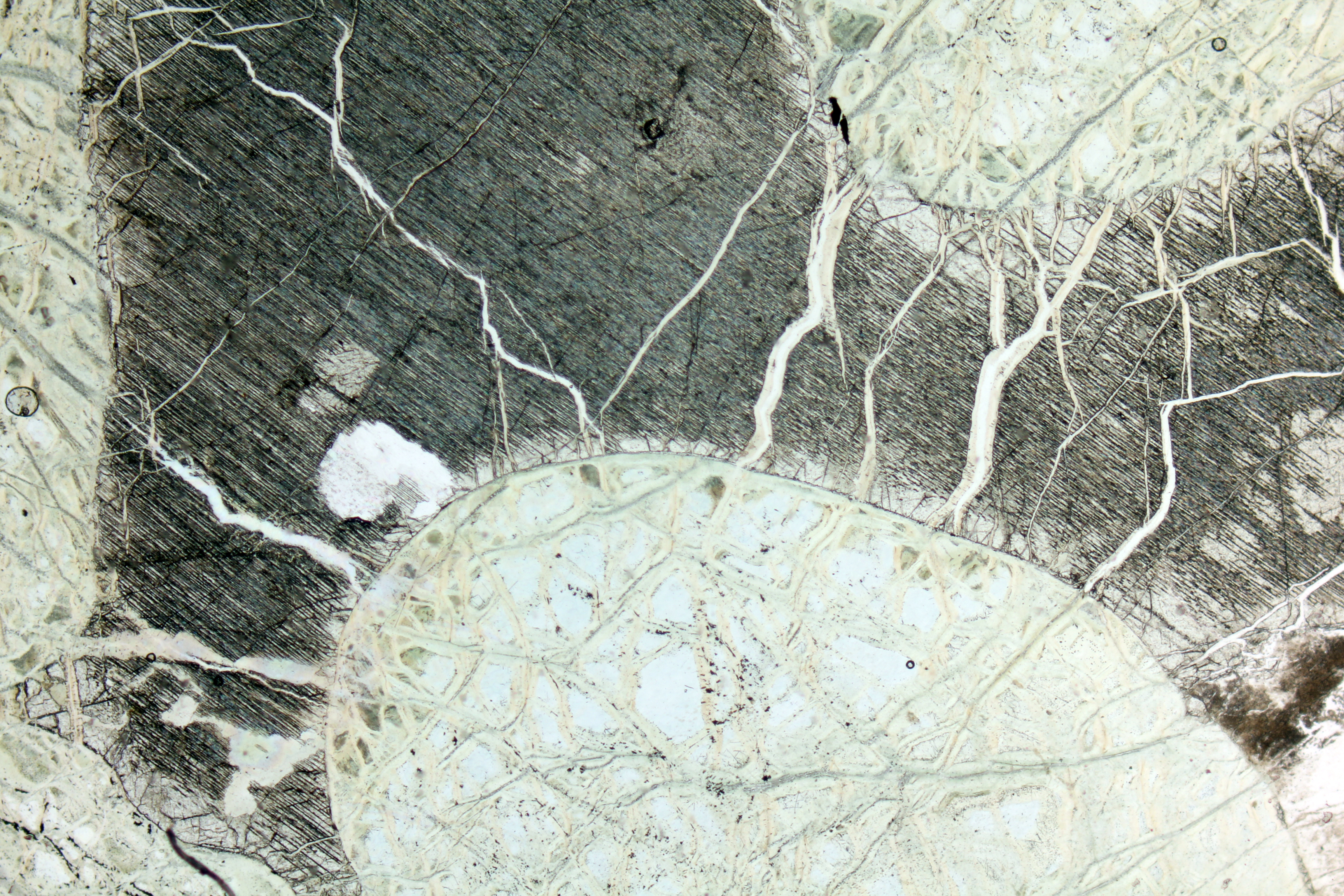 Rounded olivine (completaly altered by serpentine) and brown altered pyroxene. note the radial fractures, due to the increase in volume during the alteration of olivine in serpentine. Crossed nicols image, magnification 2x (Field of view = 7mm)